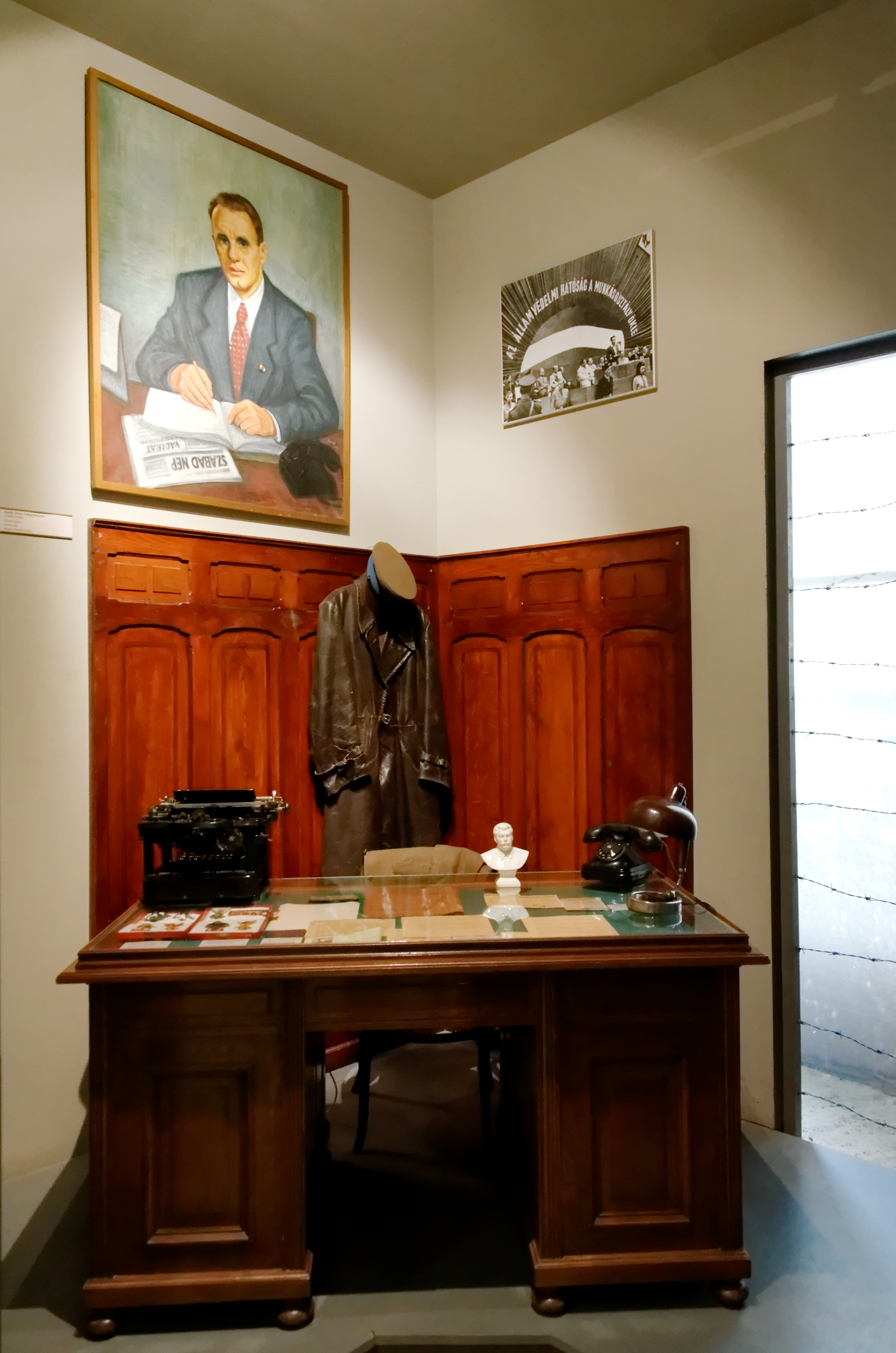 An office during the communism time. Hungarian National Museum, Budapest